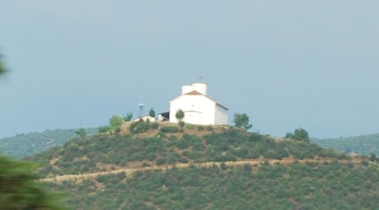 St. Elijah Church in Davidovo, Mcaedonia